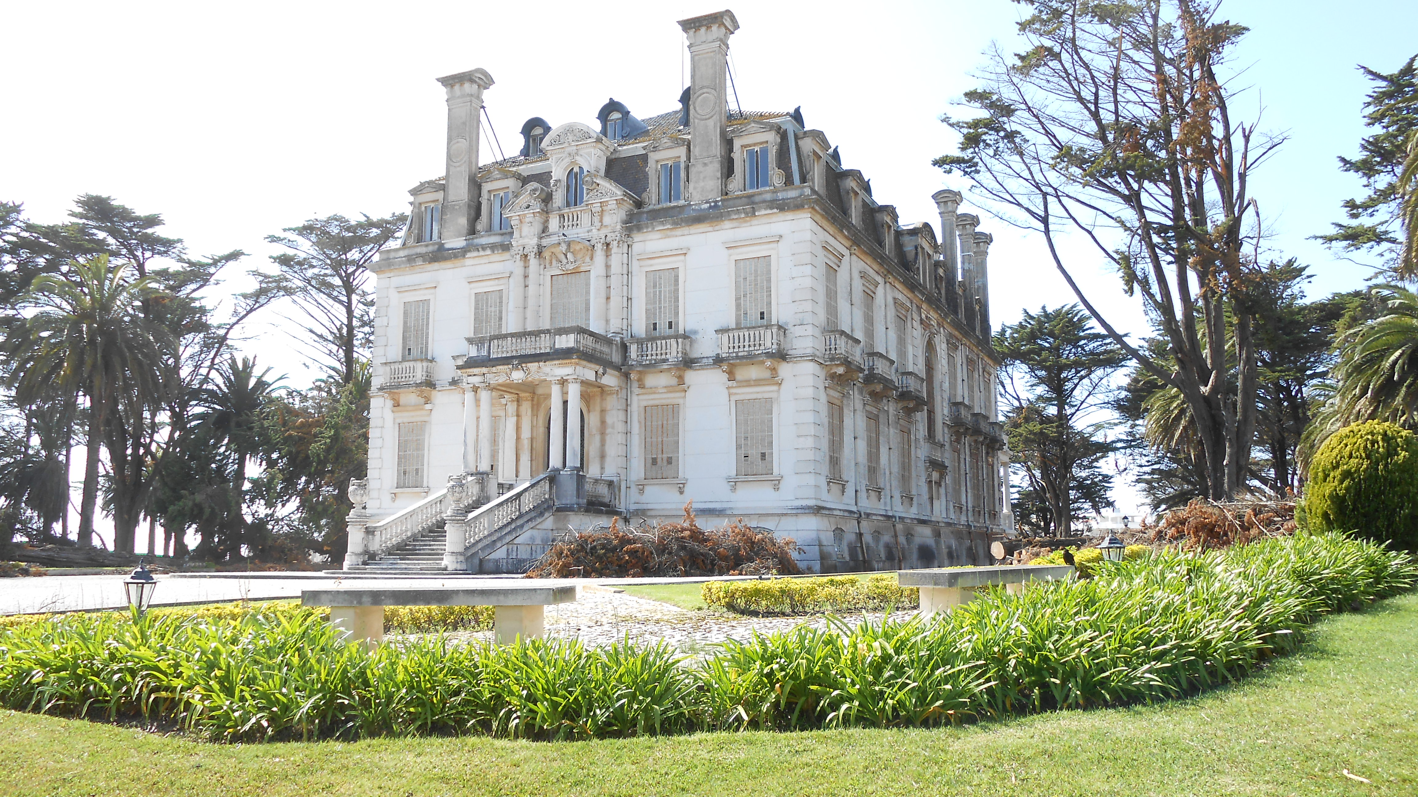 The main building of the Palácio Sotto Mayor in Figueira da Foz.